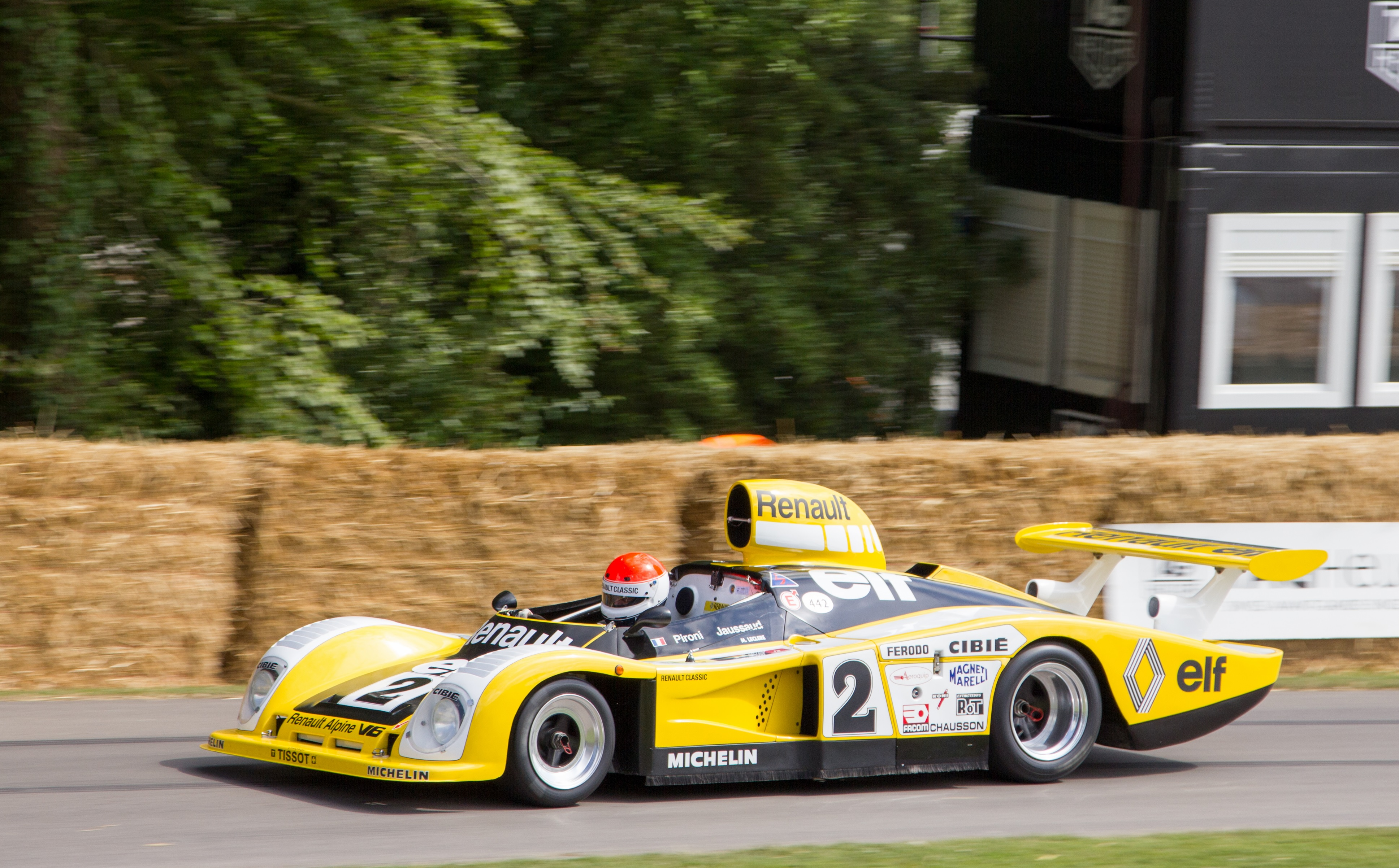 The Renault Alpine A442B at the 2014 Goodwood Festival of Speed.